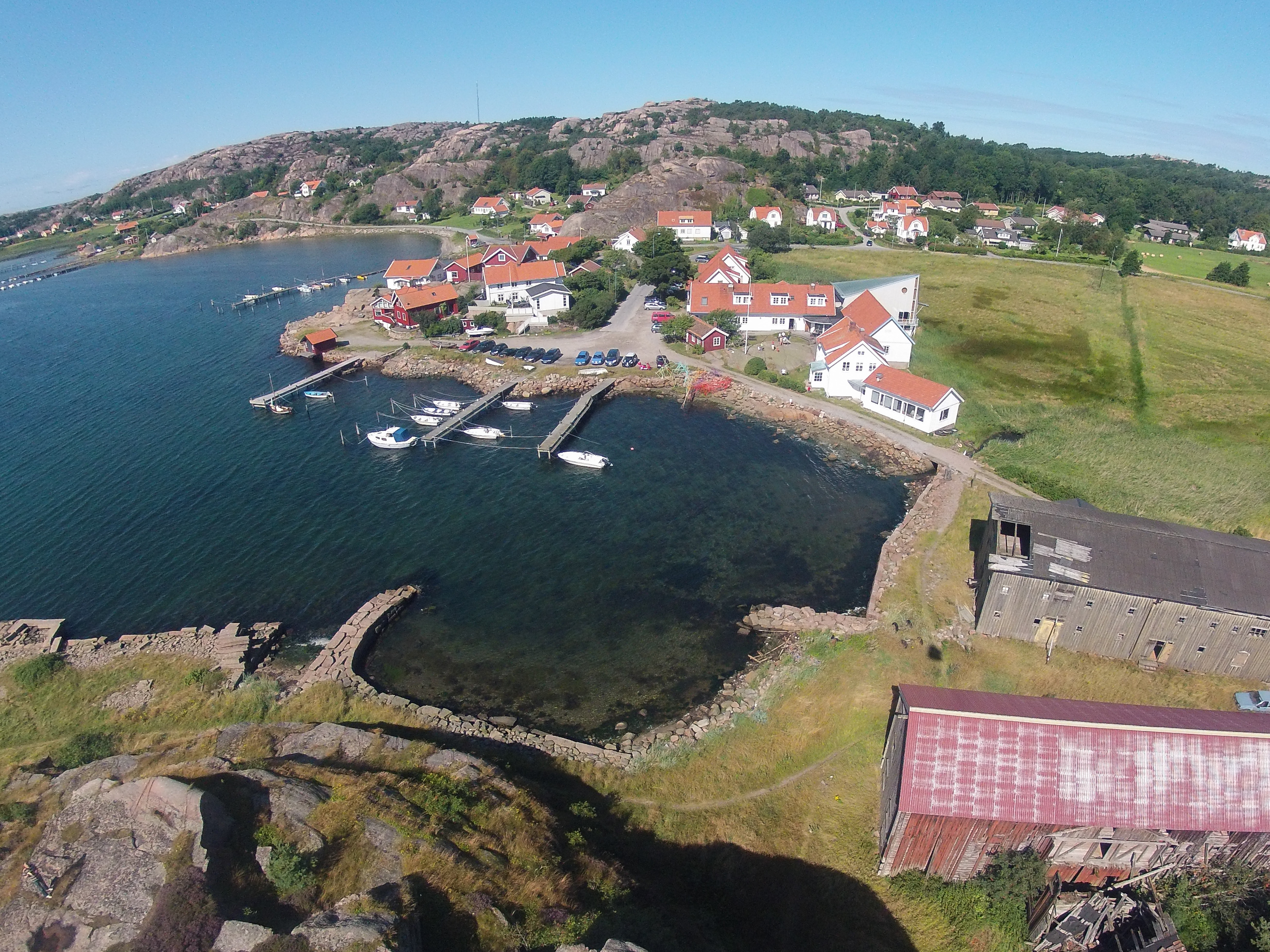 Image of the Gerlesborg art school shot from kite.